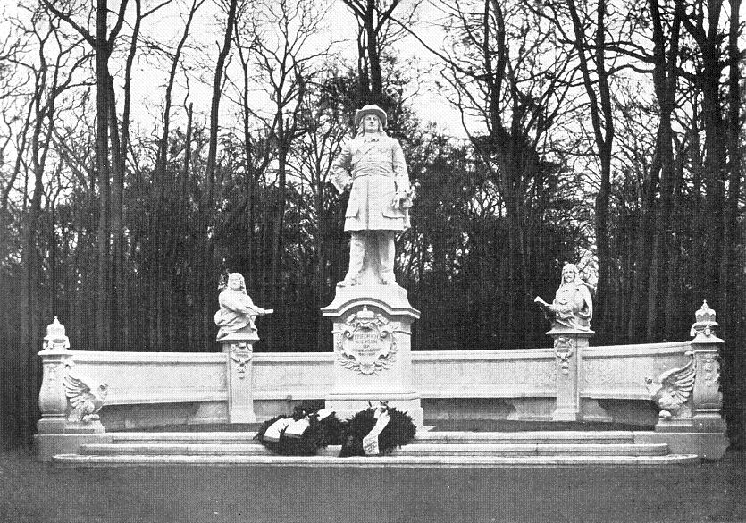 Monument group № 25 in the former Siegesallee in Berlin. The central monument commemorates Friedrich Wilhelm I of Brandenburg. The bust on the left commemorates Generalfeldmarschall Georg von Derfflinger; the bust on the right Baron Otto von Schwerin, High President of the Privy Council. Sculptor: Fritz Schaper. Statue unveiled on 30 March 1901.